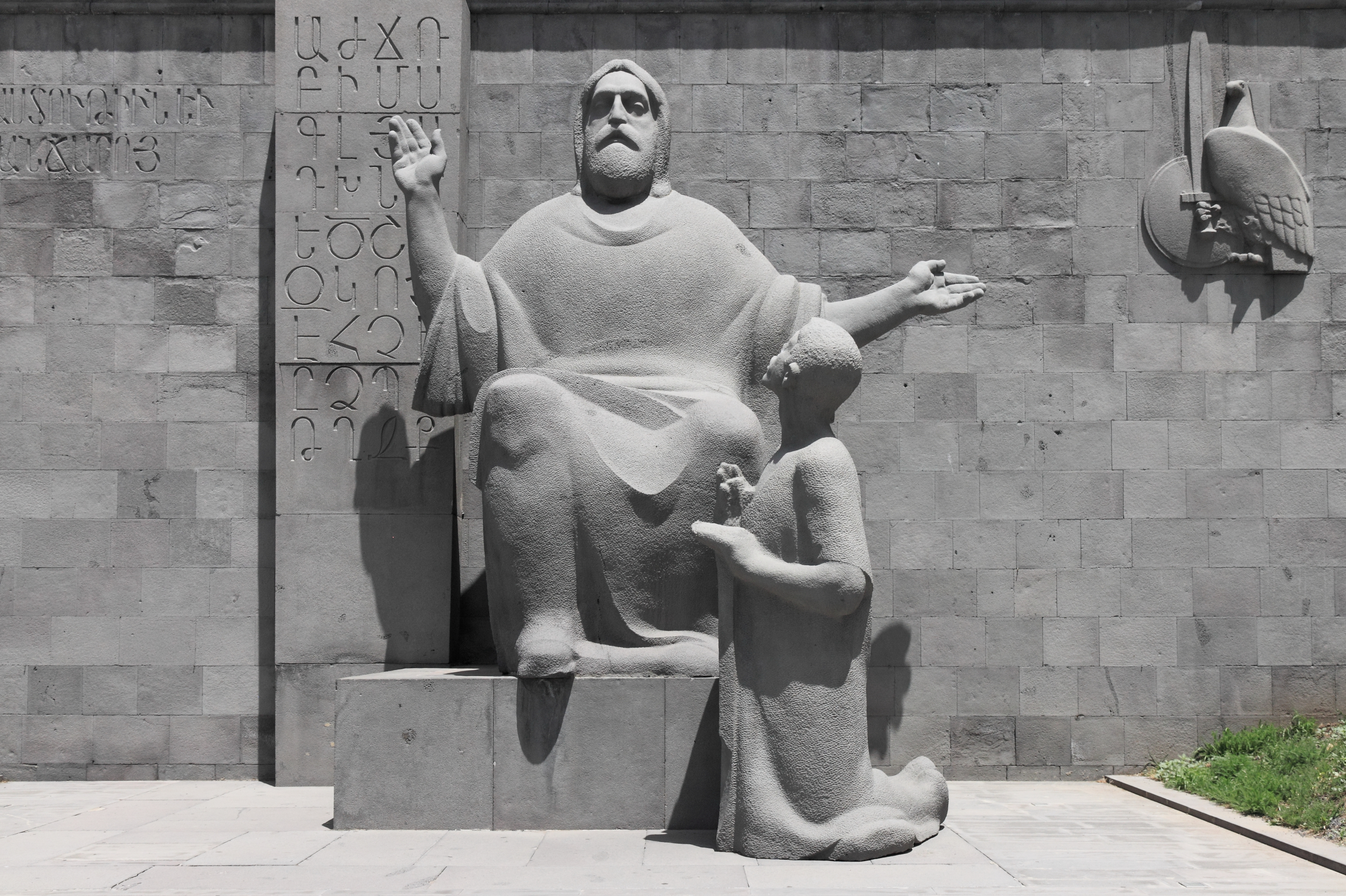 Statue of Mesrop Mashtots. Matenadaran. Yerevan, Armenia.